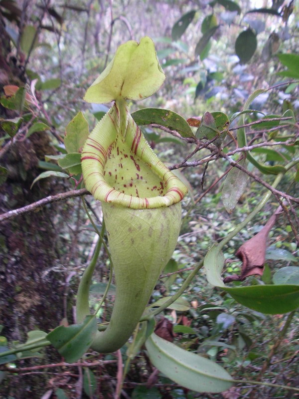 Nepenthes ovata